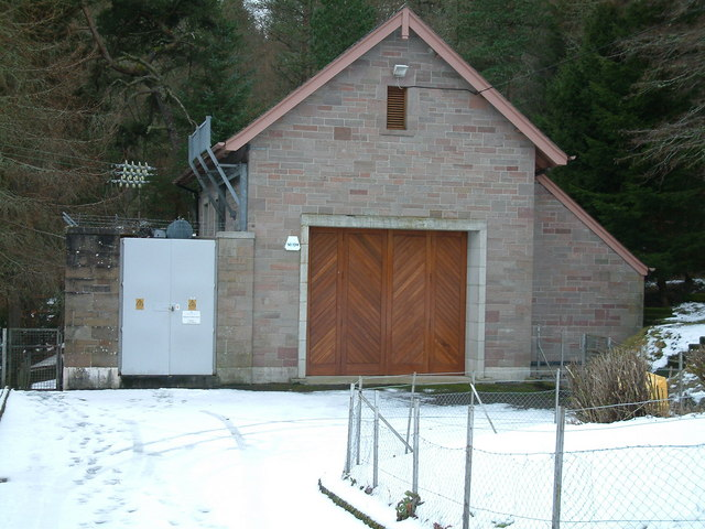 Trinafour Power Station, a small hydro-electric installation at Trinafour, fed from the Errochty